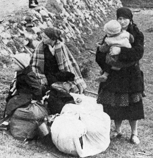 Women awaiting transport during Action Saybusch (Polish: Akcja Żywiec), the mass expulsion of 18-20,000 Poles from the territory of Żywiec County, conducted by the Wehrmacht and German police in 1940 during the Nazi occupation of Poland.